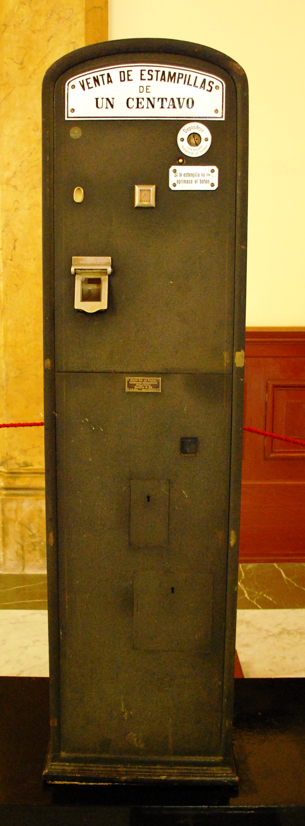 Stamp vending machine from beginning of 20th century on display at the Palacio Postal or Palacio de Correos in Mexico City